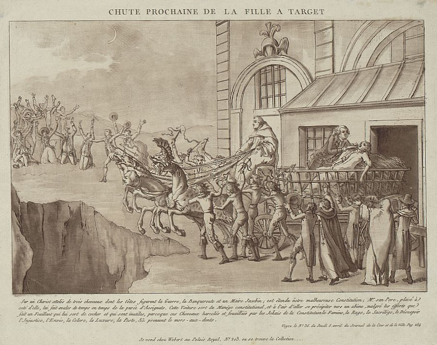 Caricature of French lawyer and politician Guy-Jean-Baptiste Target (1733-1807). Library of Congress description: "Print shows a hay wagon driven by a monk behind three horses, "la Guerre, la Bangueroute et un Marie Jacobin," who are harassed by "Jokais" of the constitution, "la Famine, la Rage, le Sacrilége, le Désespoir, l'Injustice, l'Envie, la Colère, la Luxure, la Peste, &c" represented by fiendish men with whips. In the wagon is Target attending to an ailing young woman representing the constitution. The wagon is approaching an abyss."